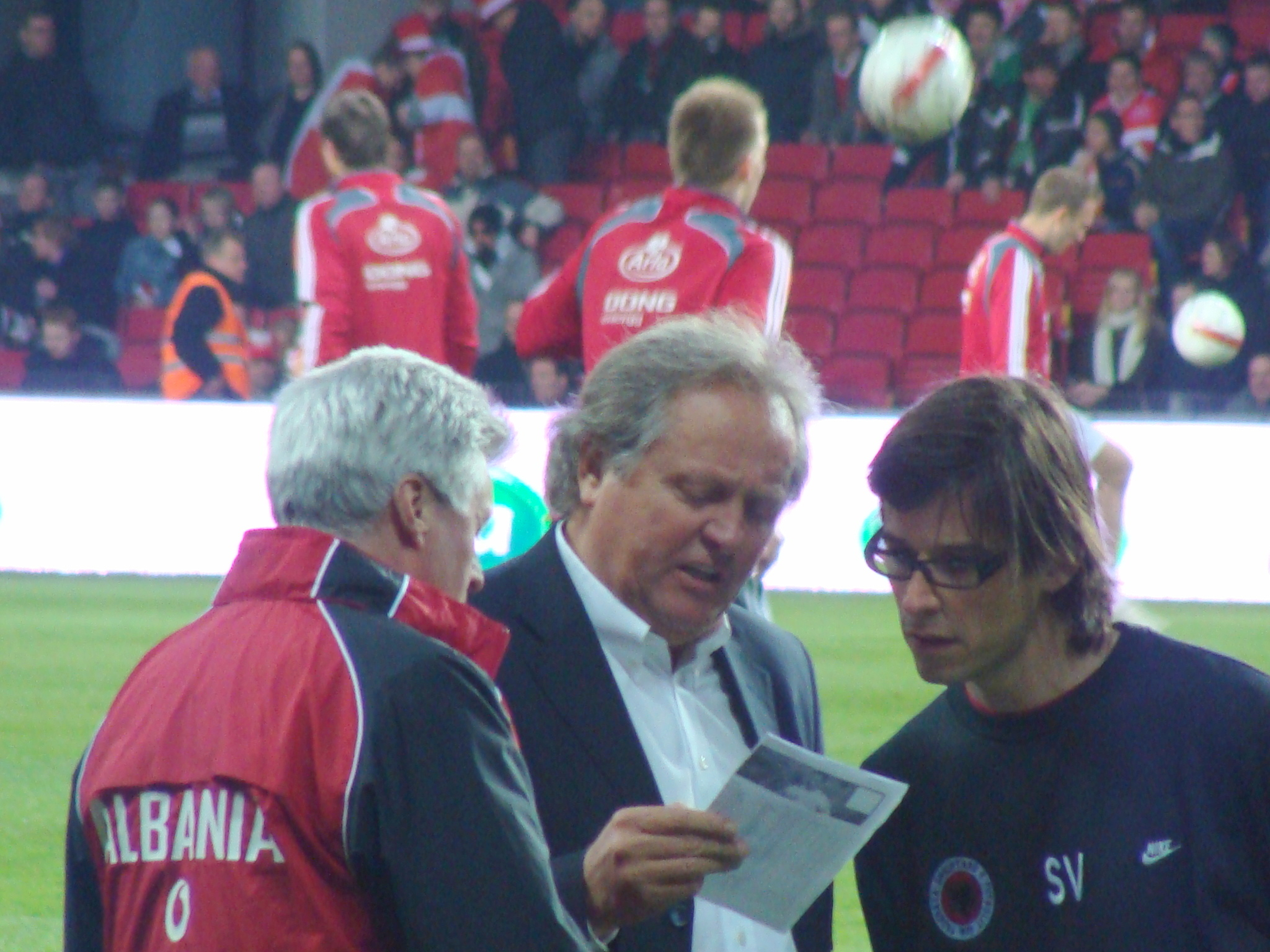 Arie Haan at the Parken Stadium in Copenhagen before the World Cup qualifier against Denmark.